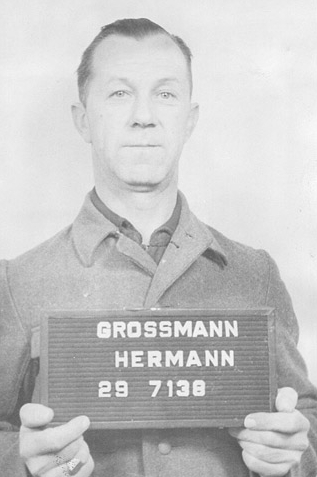 Hermann Grossmann, SS-Obersturmführer, camp commander of the subcamps Wernigerode and Bochumer Verein (both subcamps of Buchenwald concentration camp). In the Buchenwald Camp Trial (part of the Dachau Trials) he was sentenced to death by hanging.